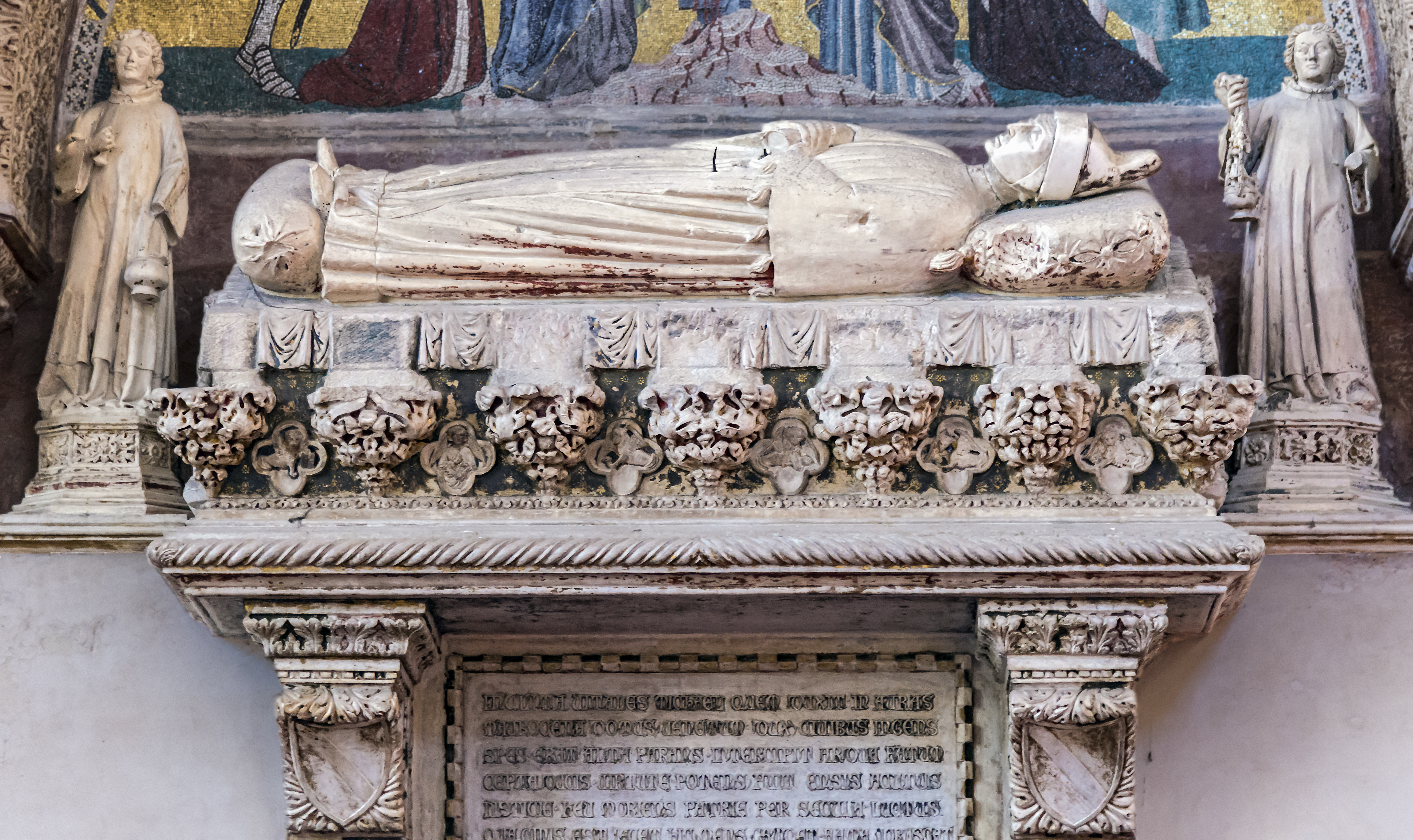 Santi Giovanni e Paolo in Venice. Trinity Chapel – Tomb of the Doge Michele Morosini. The recumbent figure of the Doge is the work of the workshop of the brothers Della Masegne.